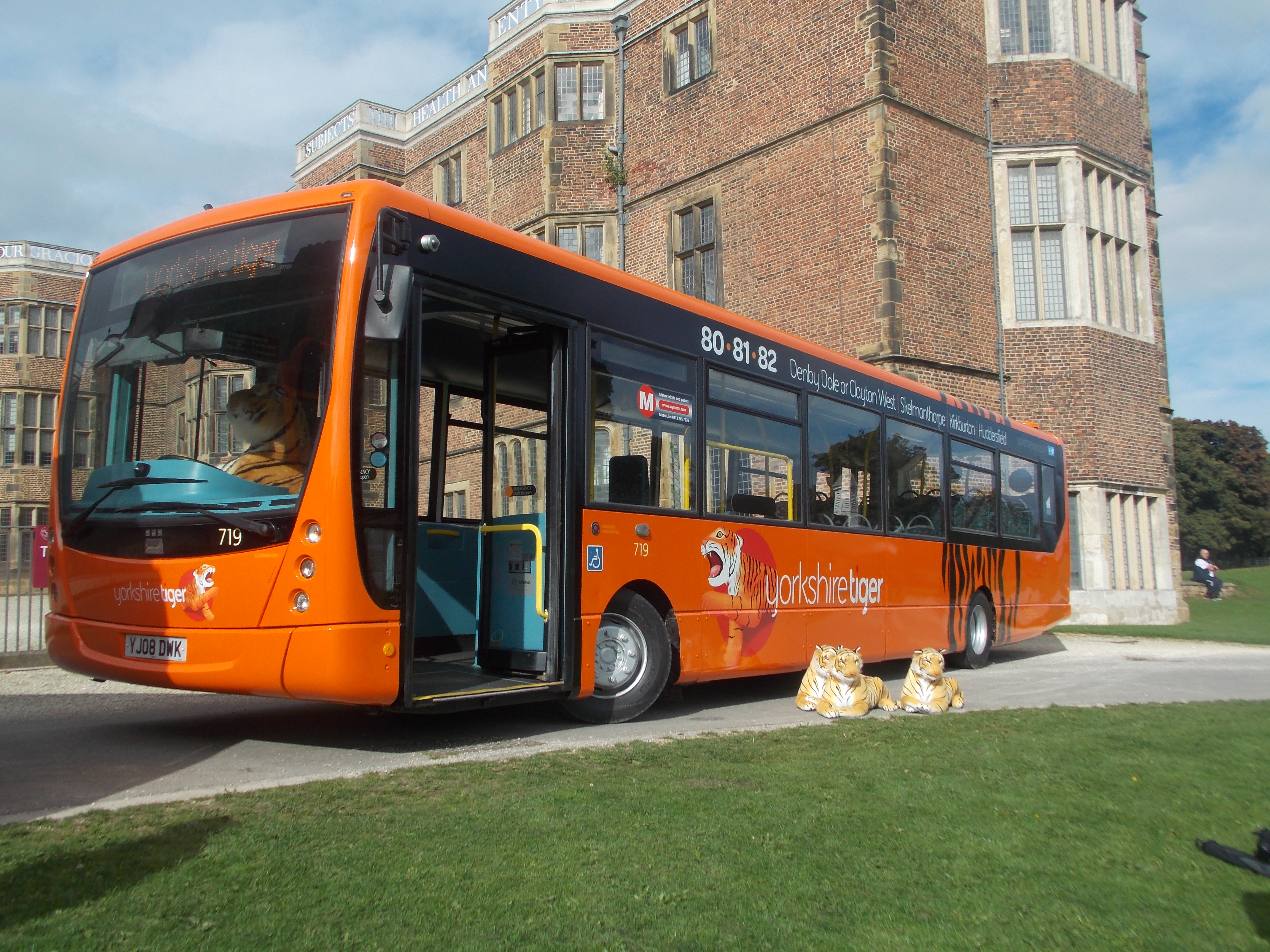 Yorkshire Tiger Plaxton Centro YJ08DWK (Fleet No 719) stands at Temple Newsham at the Launch of the Compnay.